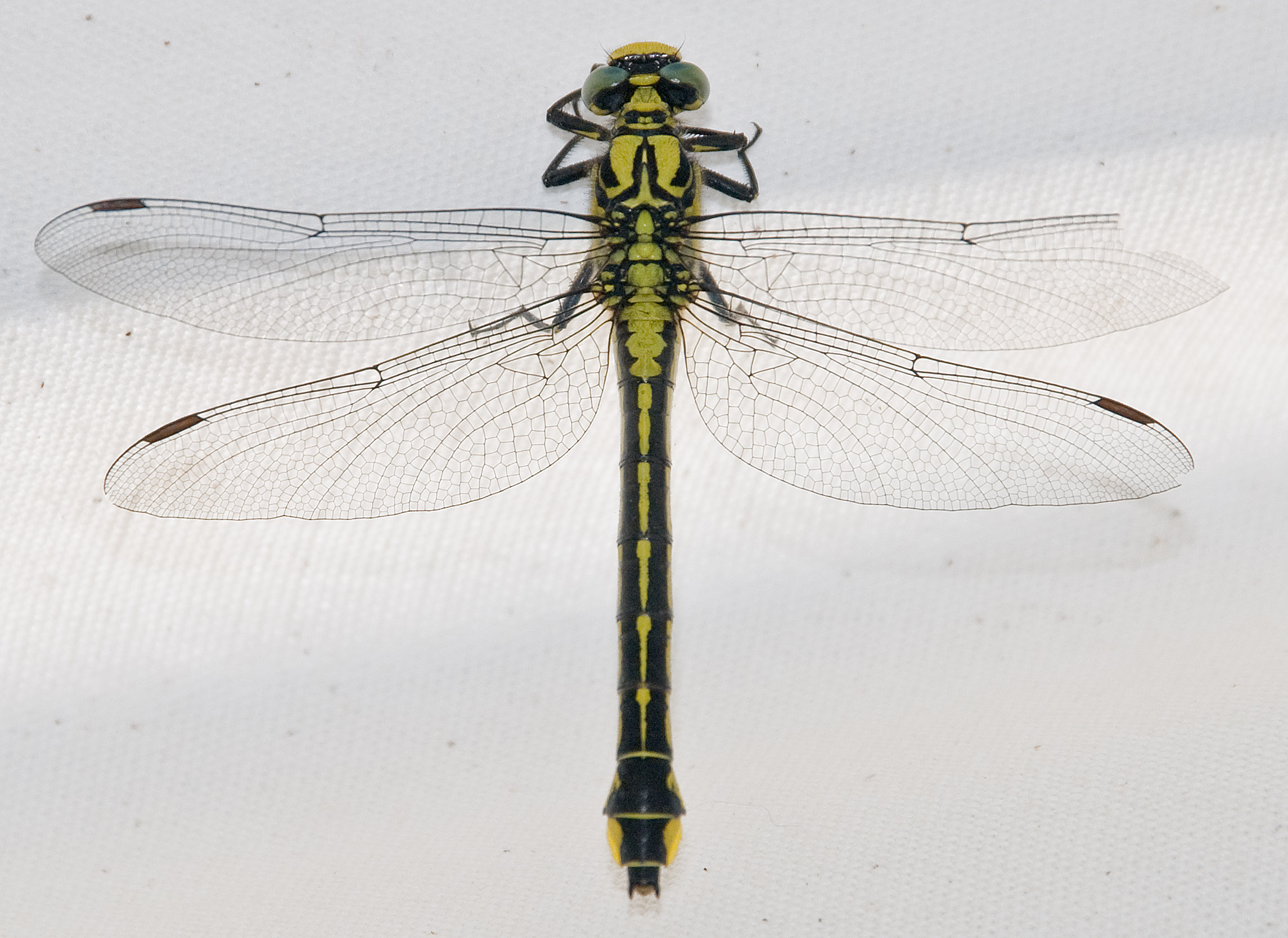 Gomphidae from Serbia